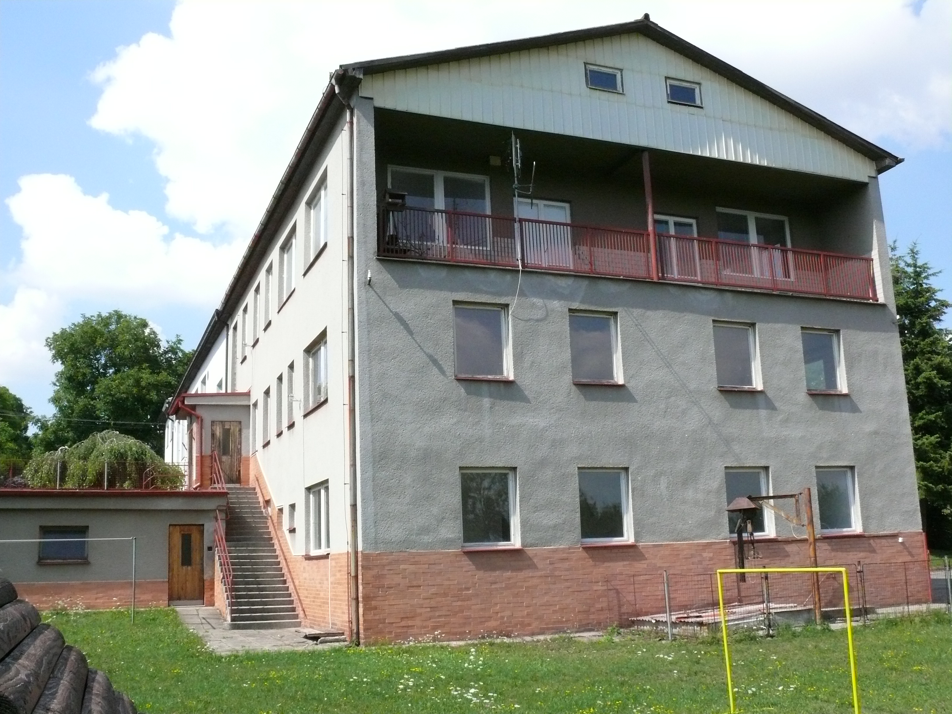 The infant school in Radimovice u Zelce (CZ)